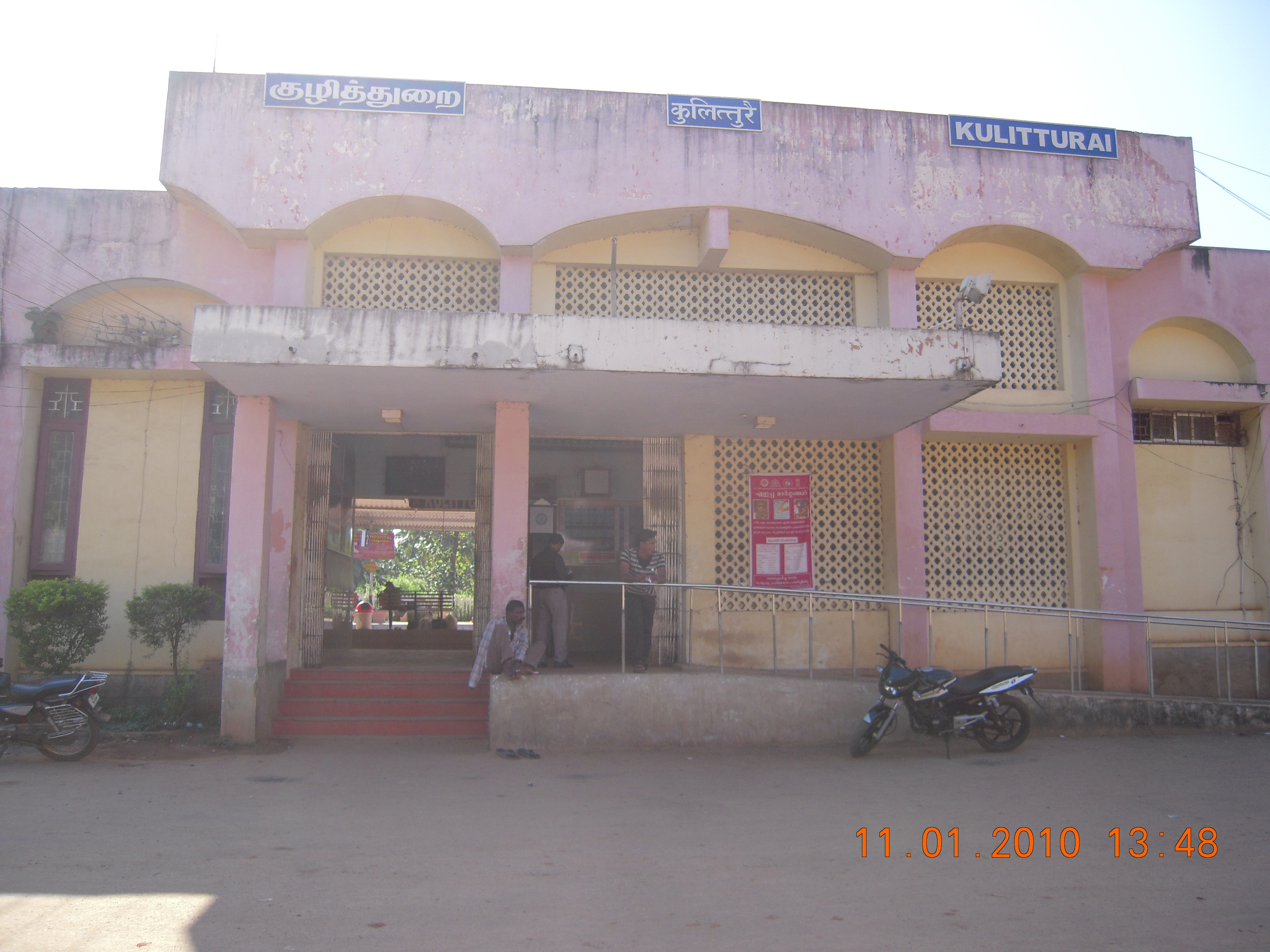 Kulitthurai Railway station